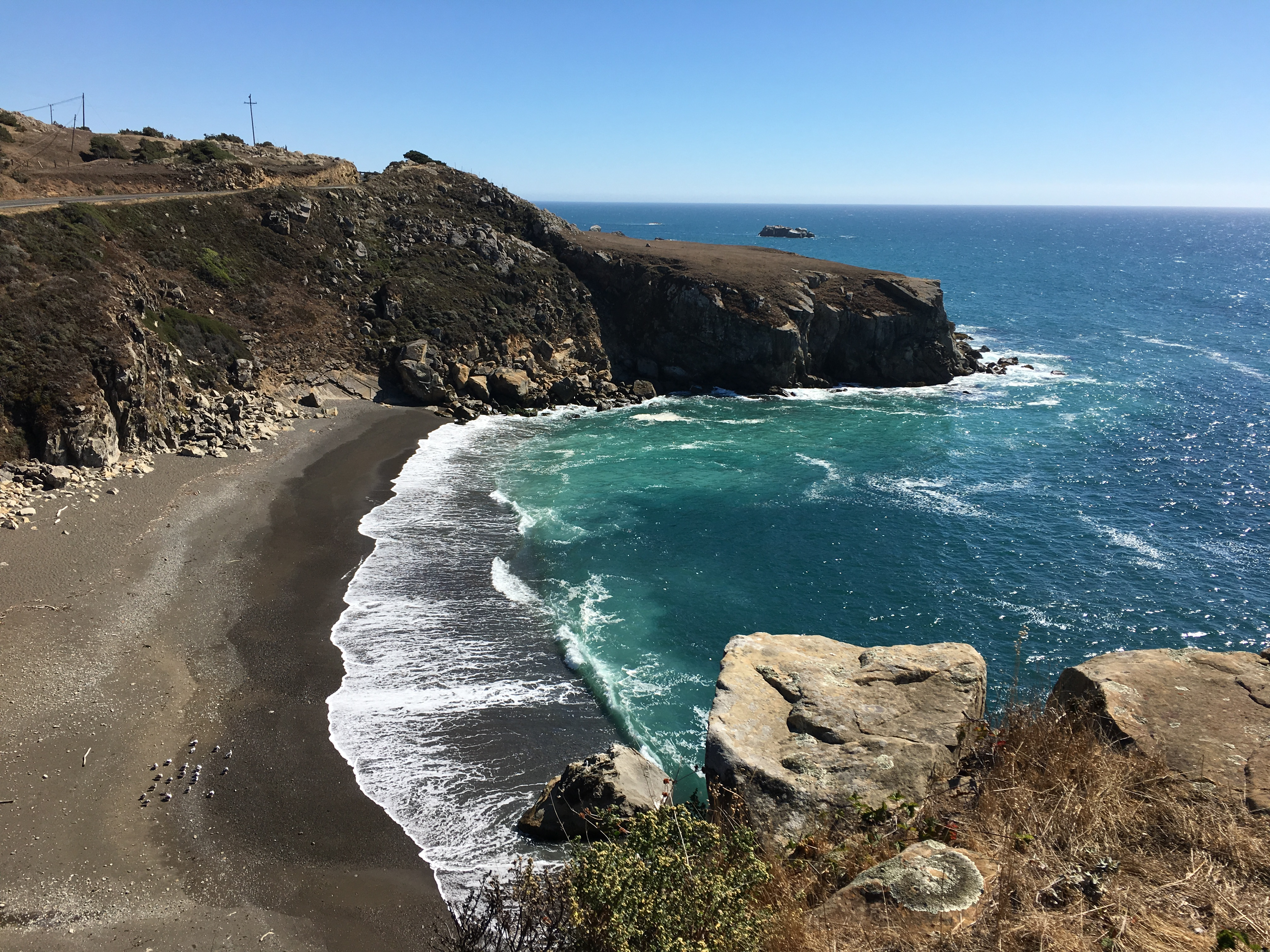 Kolmer Gulch cliff overlooking the beach